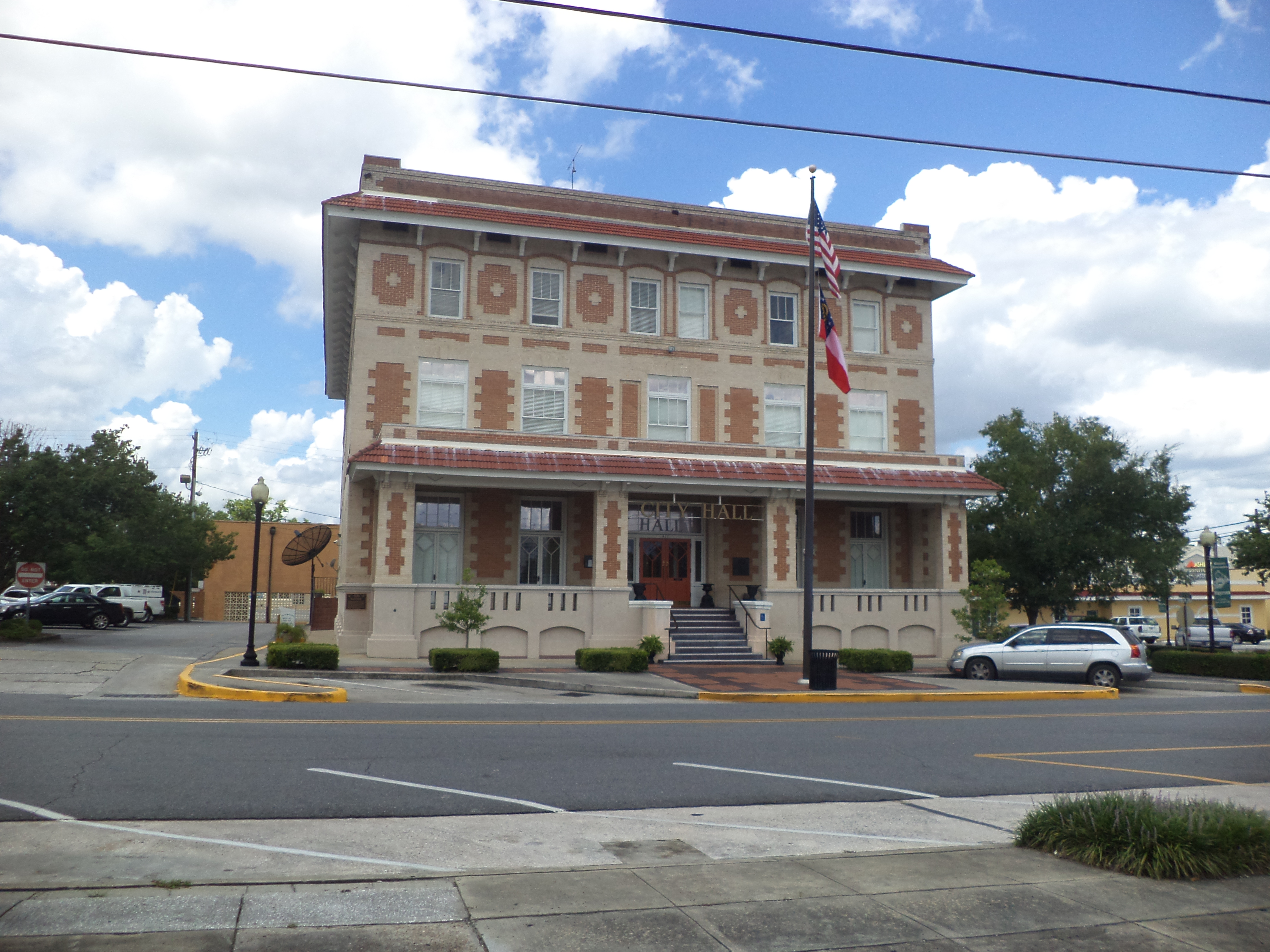 Waycross, Ware County, Georgia